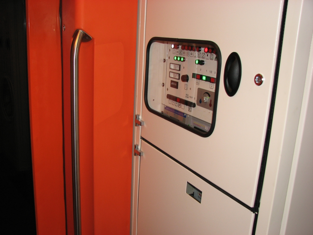 MÁV IC3 passanger coaches